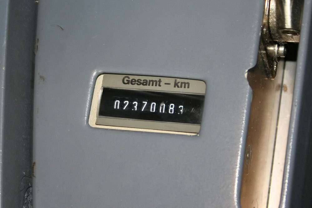 A milage counter on a German ICE 3 train. It indicates more than 2.3 million kilometers